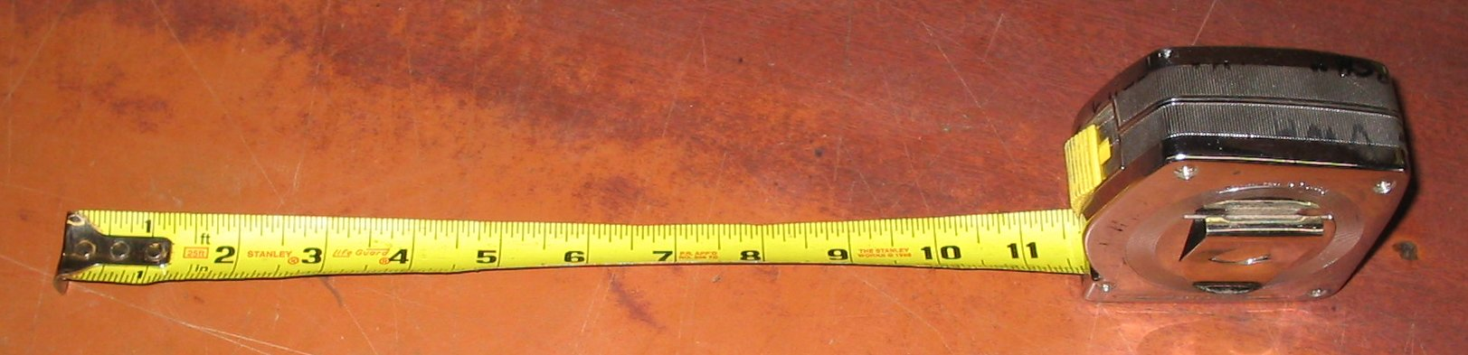 A tape measure, marked in inches. It's a Stanley PowerLock 25-foot tape measure, extended to 1 foot. David Benbennick took this photograph on Wednesday, January 19, 2005. Cropped with the Gimp.